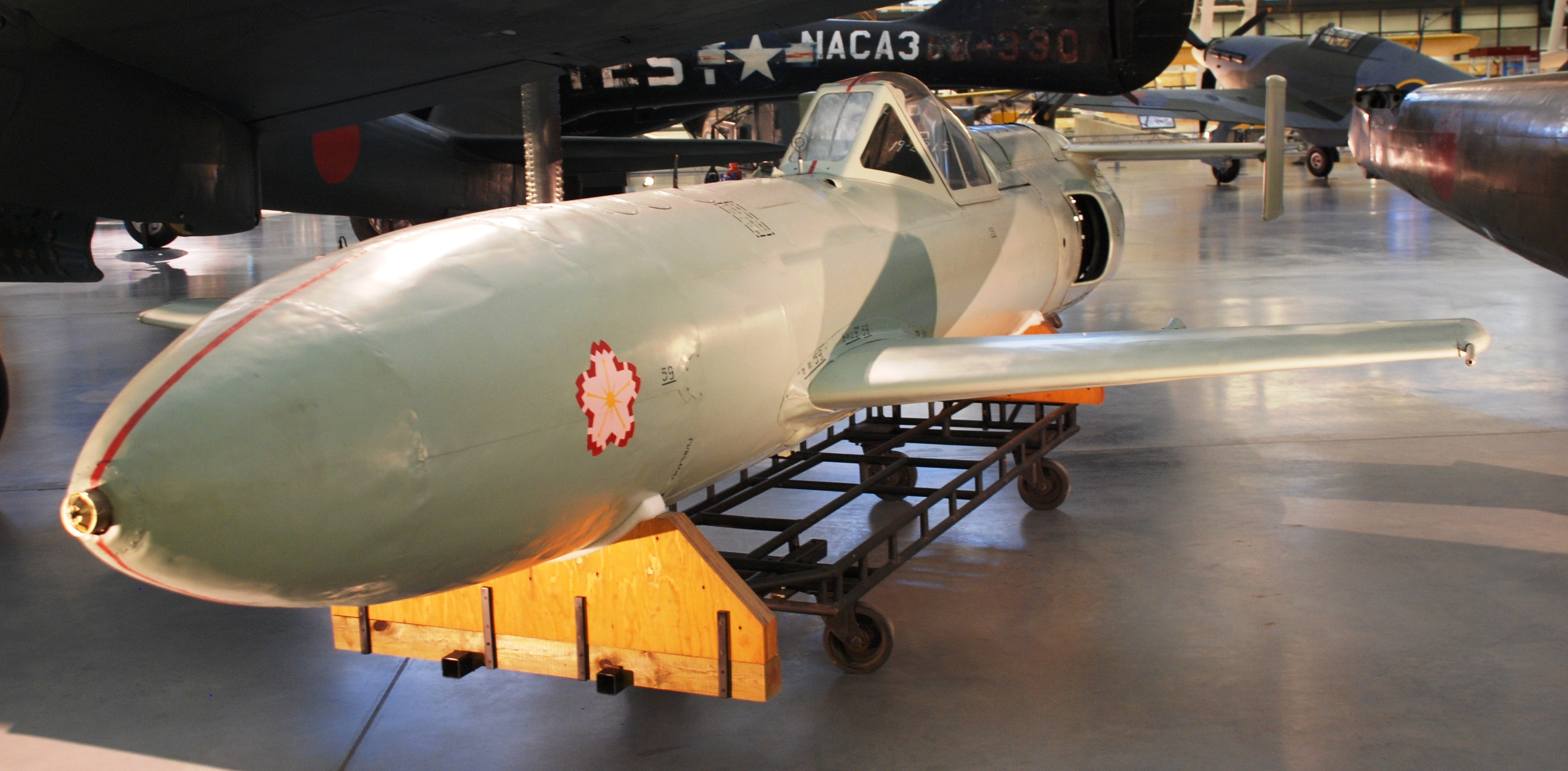 Yokosuka MXY 7 Ohka flying bomb, picture taken at Steven F. Udvar-Hazy Center The NASM Ohka is a rare Model 22, powered by an early type of jet engine, which unlike the rocket engine of the Model 11, gave it much greater range- an important feature since Model 11's needed to be launched within 20 miles of target by slow moving mother ships which were easy prey for fighters. According to the Smithsonian this Ohka was taken from Japan to Alameda, Ca in late 1945, with the first photo taken in December 1945. Then to the Smithsonian in 1948, where it was on display at Smithsonian Arts and Industries Building until it was moved in the early 1970s for storage at Paul E. Garber Facility in Suitland, Maryland facility. It was restored there in 1993. It is unlikely this was captured anywhere else besides the Yokosuka research hangers, since Aichi was unable to perform any assembly on Model 22s, Yokosuka built all Model 22s, and all the research for the troublesome Tsu-11 engine integration were conducted at Yokosuka.